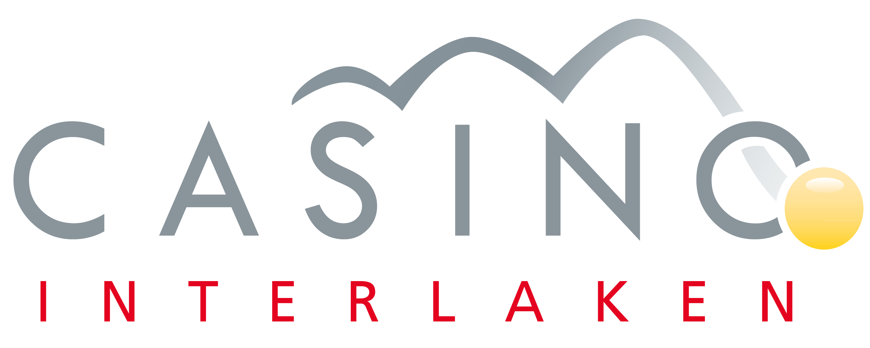 Casino Interlaken Logo